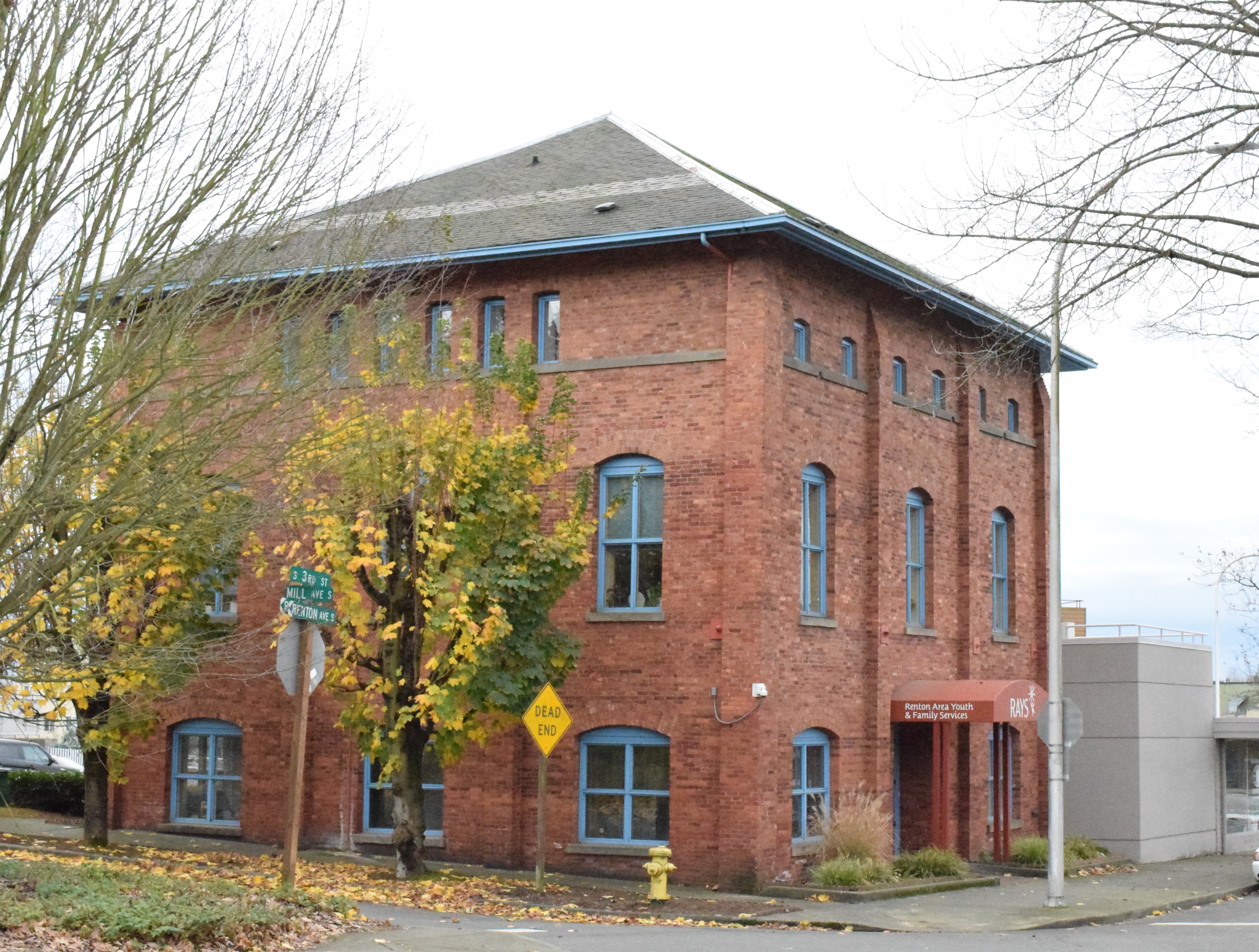 A former electrical substation on 3rd Street, downtown Renton, near the old brickworks. Built 1898 or 1899. Renton's first brick building. Details at